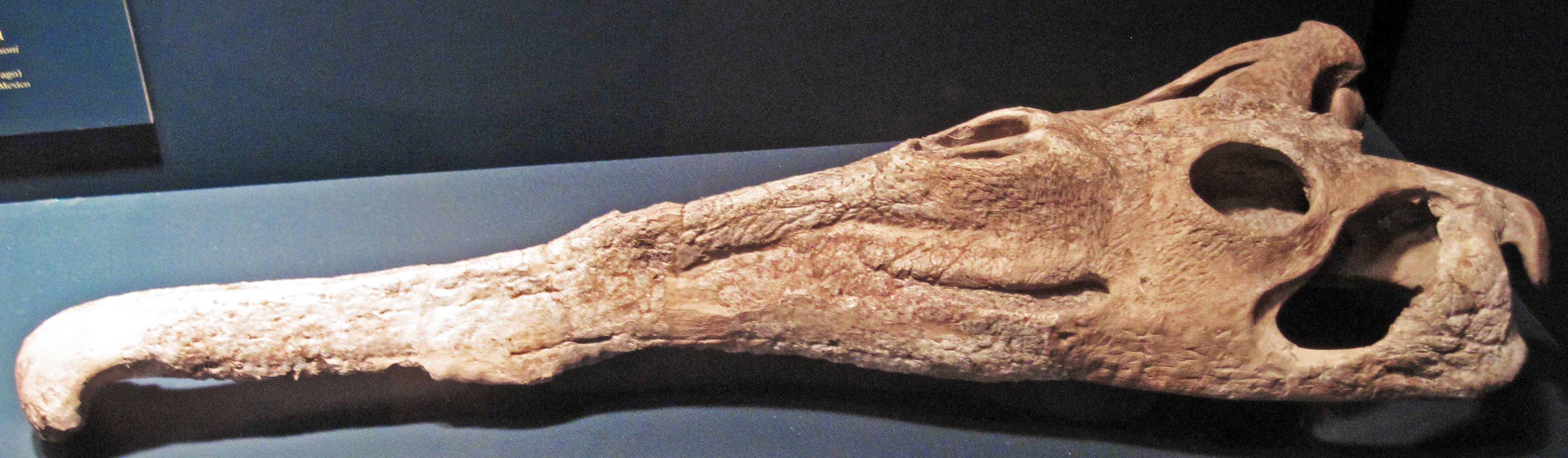 Machaeroprosopus andersoni Mehl, 1922 - fossil reptile skull from the Triassic of New Mexico, USA. (FMNH UC396, Field Museum of Natural History, Chicago, Illinois, USA) Prima facie, this fossil skull looks like it is a crocodilian - but it's not! This is a phytosaur. Phytosaurs and crocodilians are unrelated reptiles that have similar body plans - an excellent example of convergent evolution. Phytosaurs are an extinct group of reptiles known only from Upper Triassic rocks, possibly extending into the Lower Jurassic. From museum signage: With their long snouts and sharp teeth, phytosaurs looked, and perhaps behaved, like today's crocodiles. But scientists know that crocodiles did not evolve from these Triassic reptiles, because of some key differences. For example, a phytosaur's nostrils are between its eyes. (See the bumps on these skulls?) A crocodile's nostrils are at the tip of its snout. This is the holotype skull of Machaeroprosopus andersoni, a phytosaur from Triassic nonmarine rocks in New Mexico. Classification: Animalia, Chordata, Vertebrata, Reptilia, Phytosauria, Phytosauridae or Parasuchidae Stratigraphy: likely derived from the Bull Canyon Formation, Chinle Group/Dockum Group, Upper Triassic Locality: Guadalupe County, eastern New Mexico, USA (likely from Bull Canyon in eastern Guadalupe County) See info. at: and